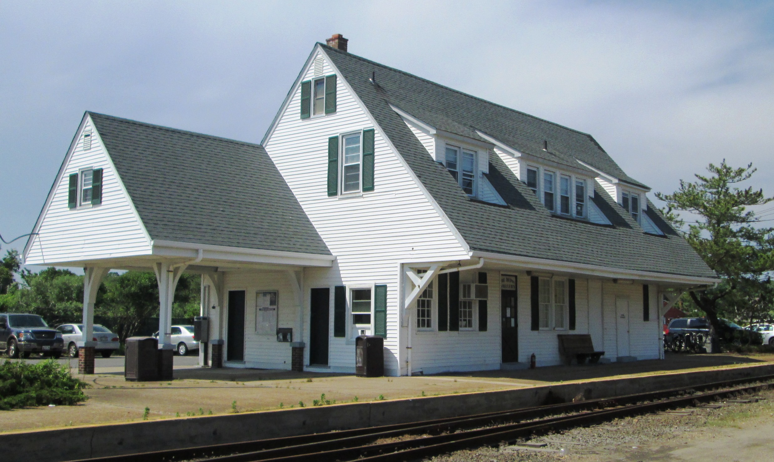 Montauk is the terminus of the Montauk Branch of the Long Island Rail Road, and as such is the easternmost railroad station on Long Island. The station is located on Edgemere Street (Suffolk County Road 49) and Fort Pond Road west of Montauk Harbor, New York. Originally built in 1895 by the Brooklyn and Montauk Railroad, it was demolished in 1907, then rebuilt twenty years later, only to be relocated by the US Navy during World War II. The current Montauk station is an unoccupied high-level center platform for two of the seven tracks. The platform from the old station leads to the current station. The previous station house is now known as the Depot Art Gallery.